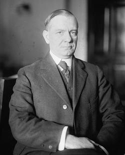 Henry B. Steagall